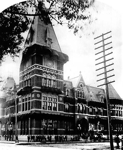 Baltimore and Potomac Railroad Terminal, 6th Street & Constitution Avenue, Washington, D.C. Opened in 1873, demolished in 1908.